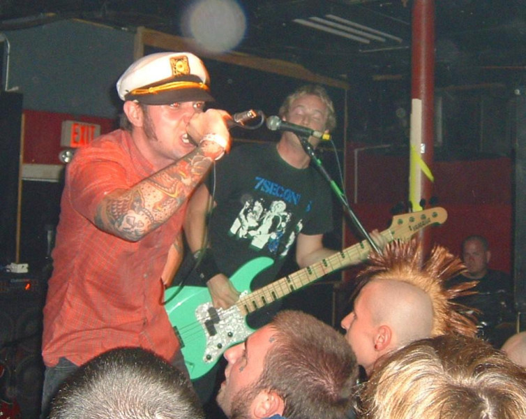 The Briggs performing at Jackrabbits in Jacksonville, FL